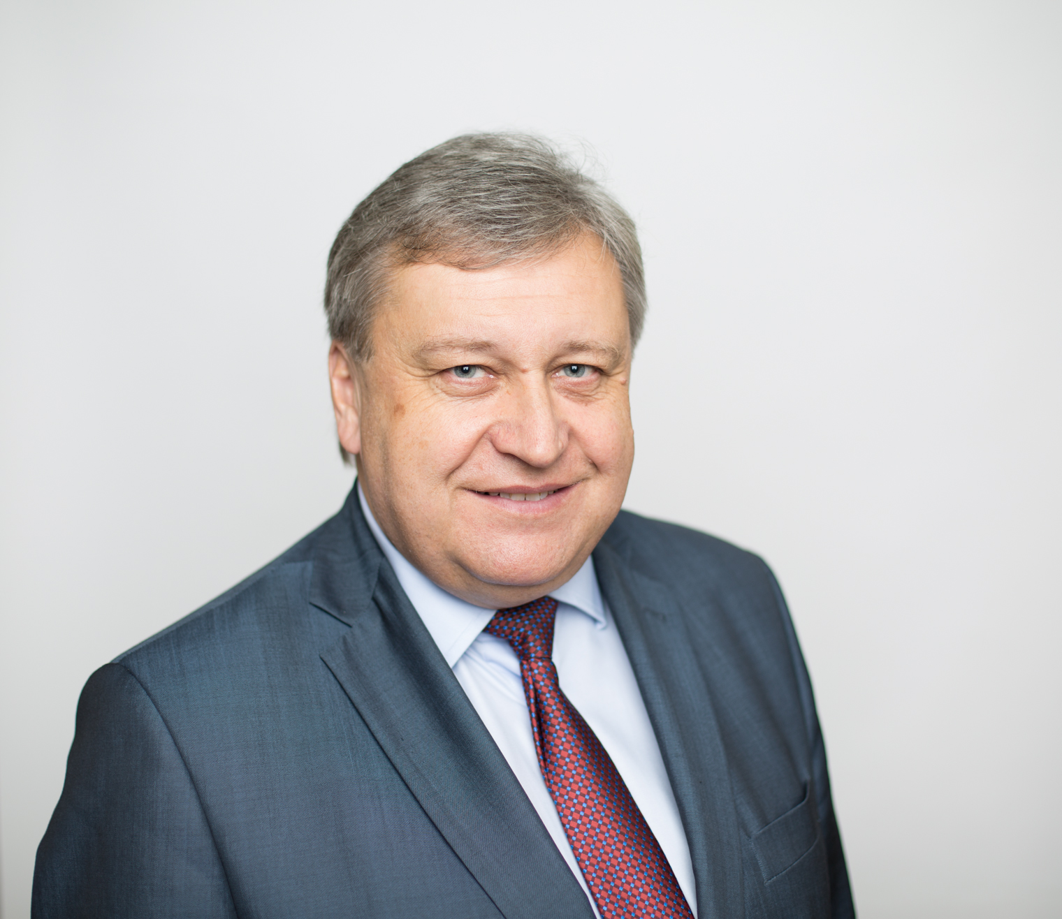 Vladislav Vilímec is a member of the Senate of the Parliament of the Czech Republic